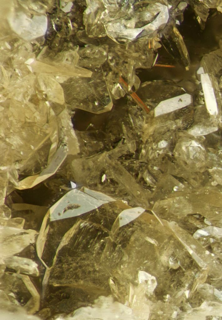 Axinite-(Mn), Epidote-(Pb) Locality: Franklin Mine, Franklin, Franklin Mining District, Sussex Co., New Jersey, USA The group in the foreground at bottom spans ~ 1⅔ x 1¼ mm. Jan 2011: Another attempt to show a (relatively) isolated and gemmy example of these xls. They are not uncommon and can be much bigger. But finding one that is not obscured, coated, cloudy, etched, etc. is a challenge. These xls are not as isolated as in the old parent photo but thery came out better. As a bonus, there are some tiny (brick red) hancockite xls deep in the recess.